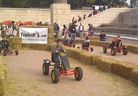 A pedal go kart from the brand Berg Toys. This picture was made during the "festa dels súpers" (a party made for the kids channel of the catalan public television)